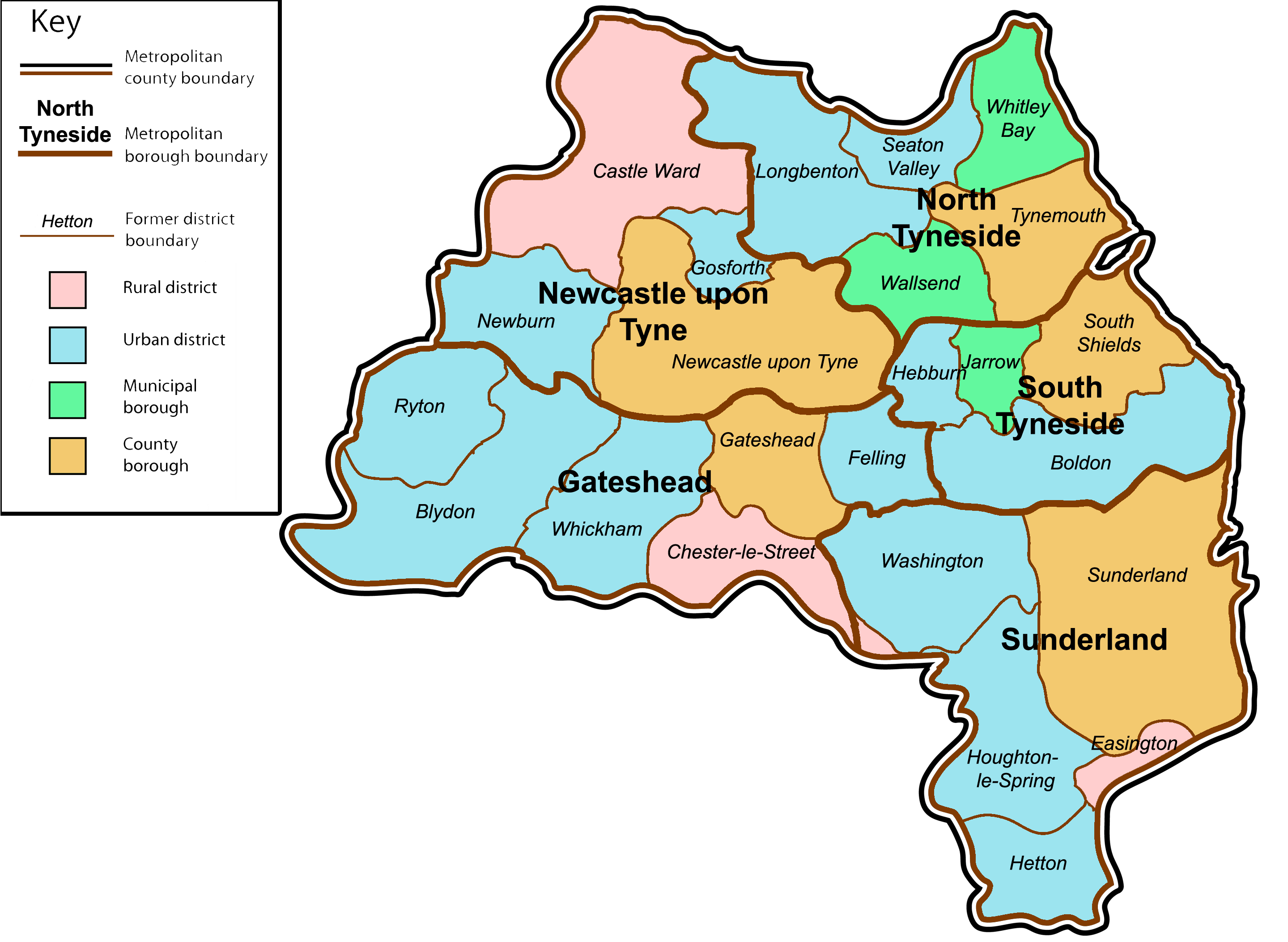 A map of the metropolitan county of Tyne and Wear, North East England. This map shows former and modern district boundaries. See key for explanation of colours.